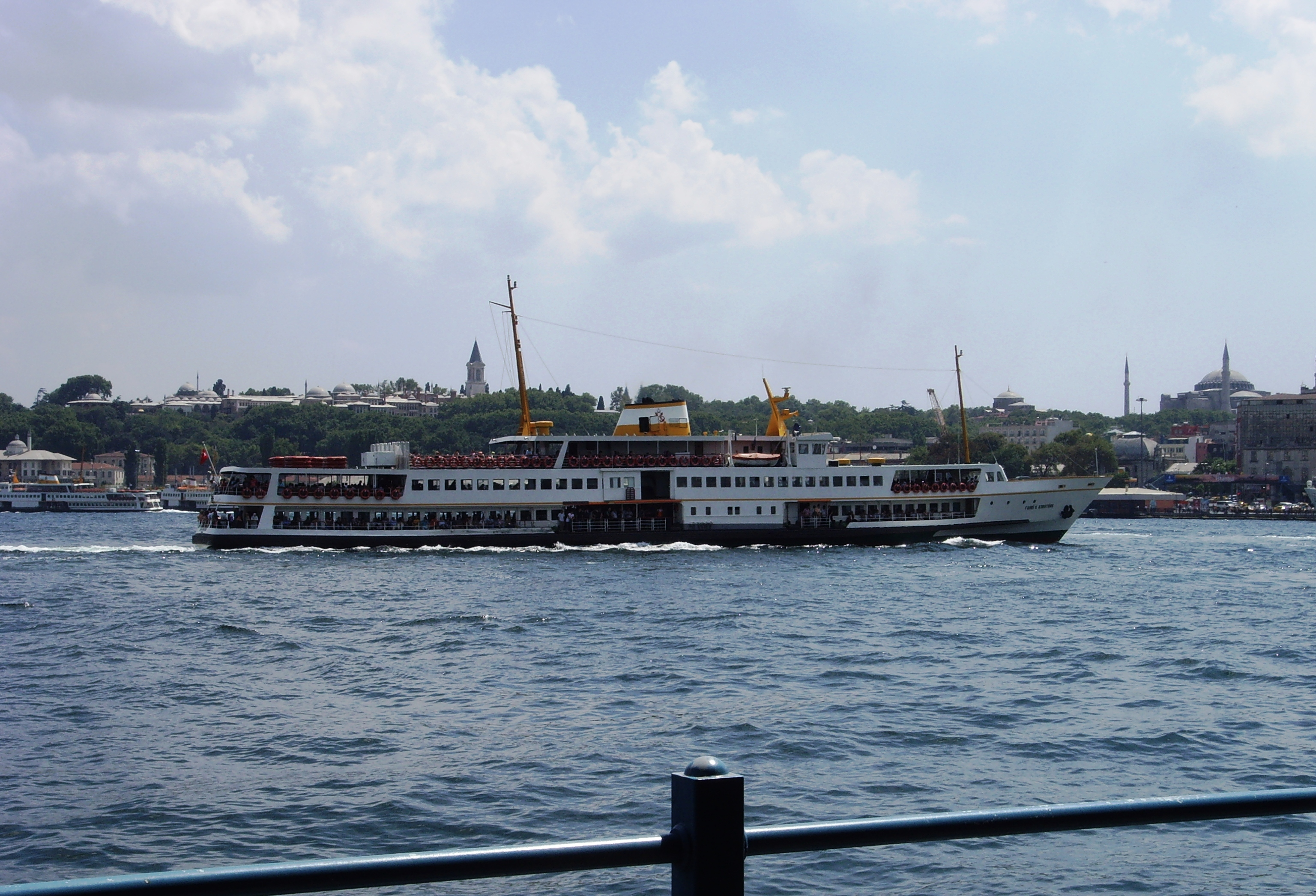 Şehir Hatları Vapuru Fahri S. Korutürk (city lines ship) from Galata Bridge, İstanbul. Topkapı Palace and Hagia Sophia on background. IMO number: 8715211 Callsign: TC5427 Length: 78,4 m